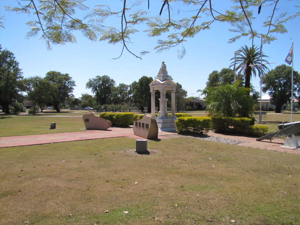 Weeping Mother Memorial (2012)